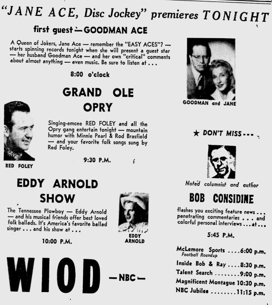 Newspaper ad for WIOD Radio, Miami featuring the Jane Ace DJ show premiere.